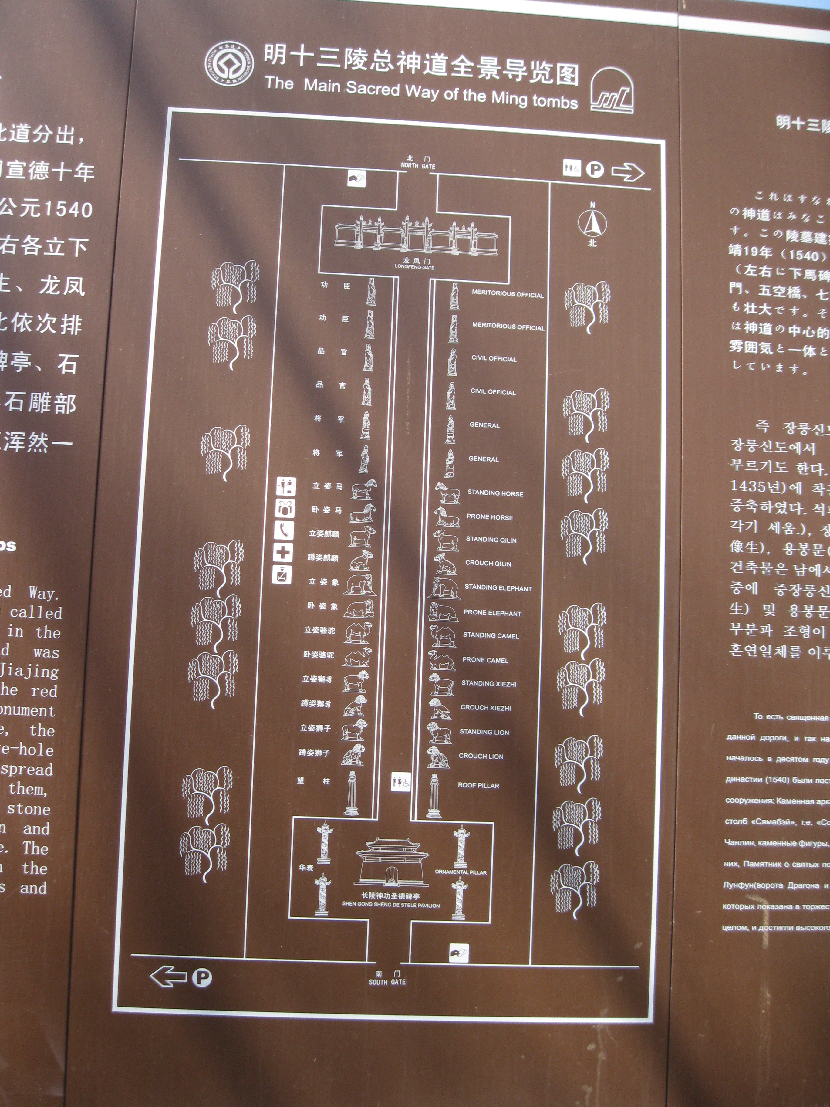 Ming Dynasty Tombs - Plan